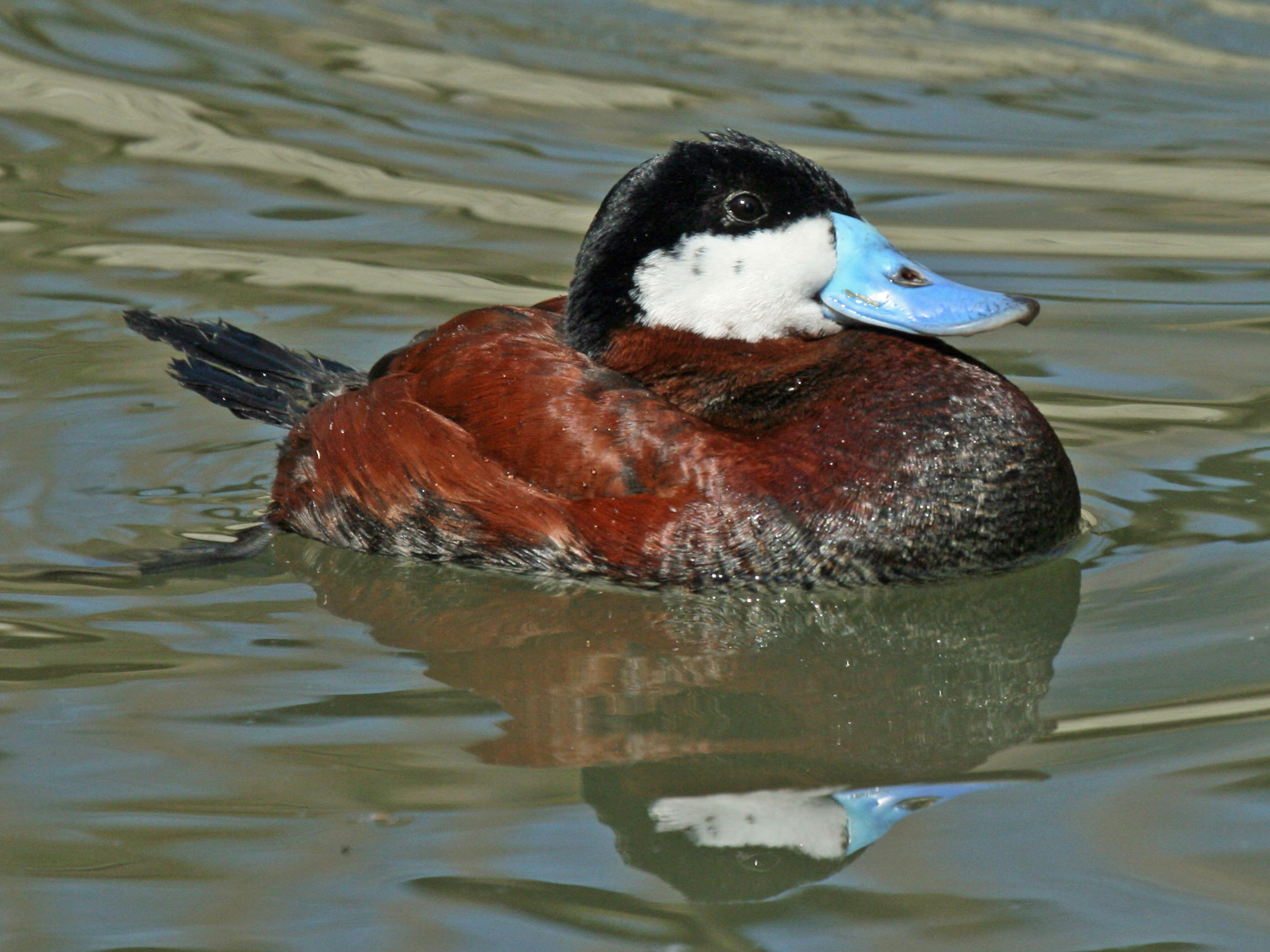 ♂ Ruddy Duck (Oxyura jamaicensis) at Sylvan Heights Waterfowl Park in Scotland Neck, North Carolina.